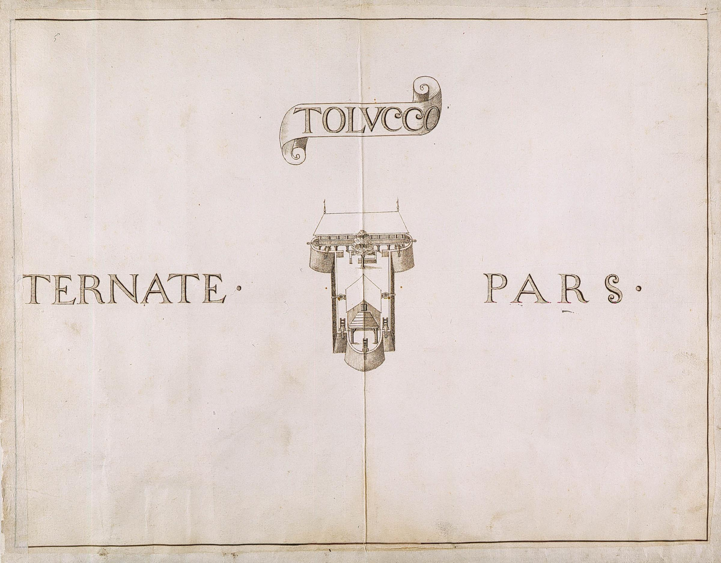 According to the Leupe catalogue (NA), the original title reads: t Fort Tolucco. Ternate Pars. Note in the Leupe catalogue: Behoort bij het rapport van Arnold de Vlamingh van Outshoorn. The edges have been reinforced. Numbered top right: 132. Notes on reverse: 132 [must be the folio number in the OBP volume] / 668 b.